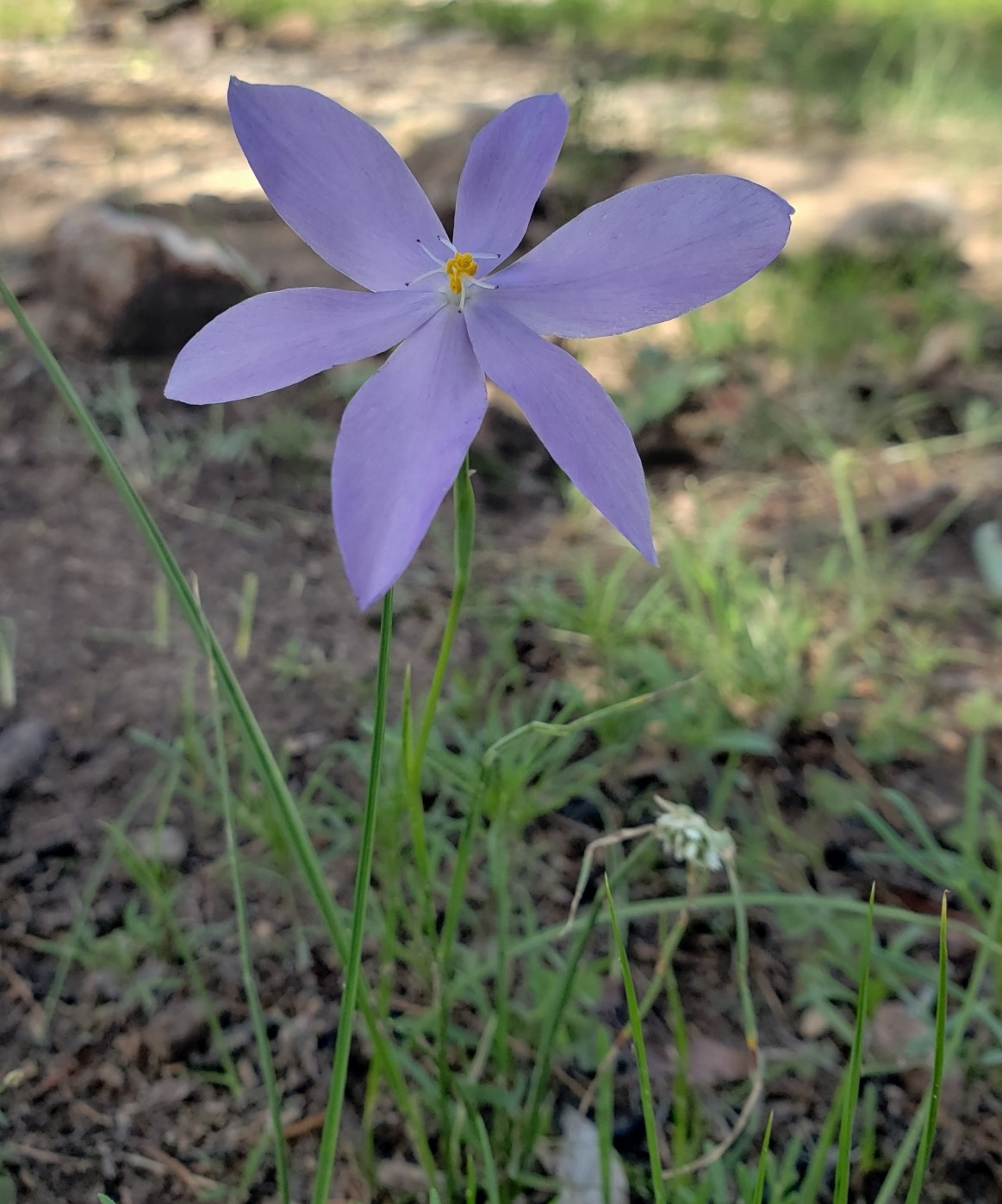 Southwestern Pleatleaf (Nemastylis tenuis). Species of plant.